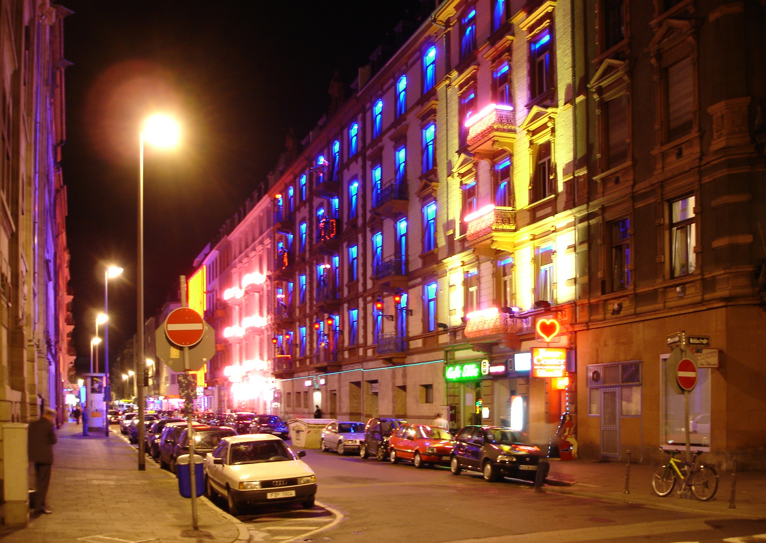 Red light district in Frankfurt (Main), Germany at crossroad Elbestraße / Niddastraße